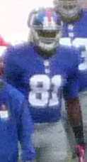 Eli Manning in shotgun formation vs. the Browns, 2012